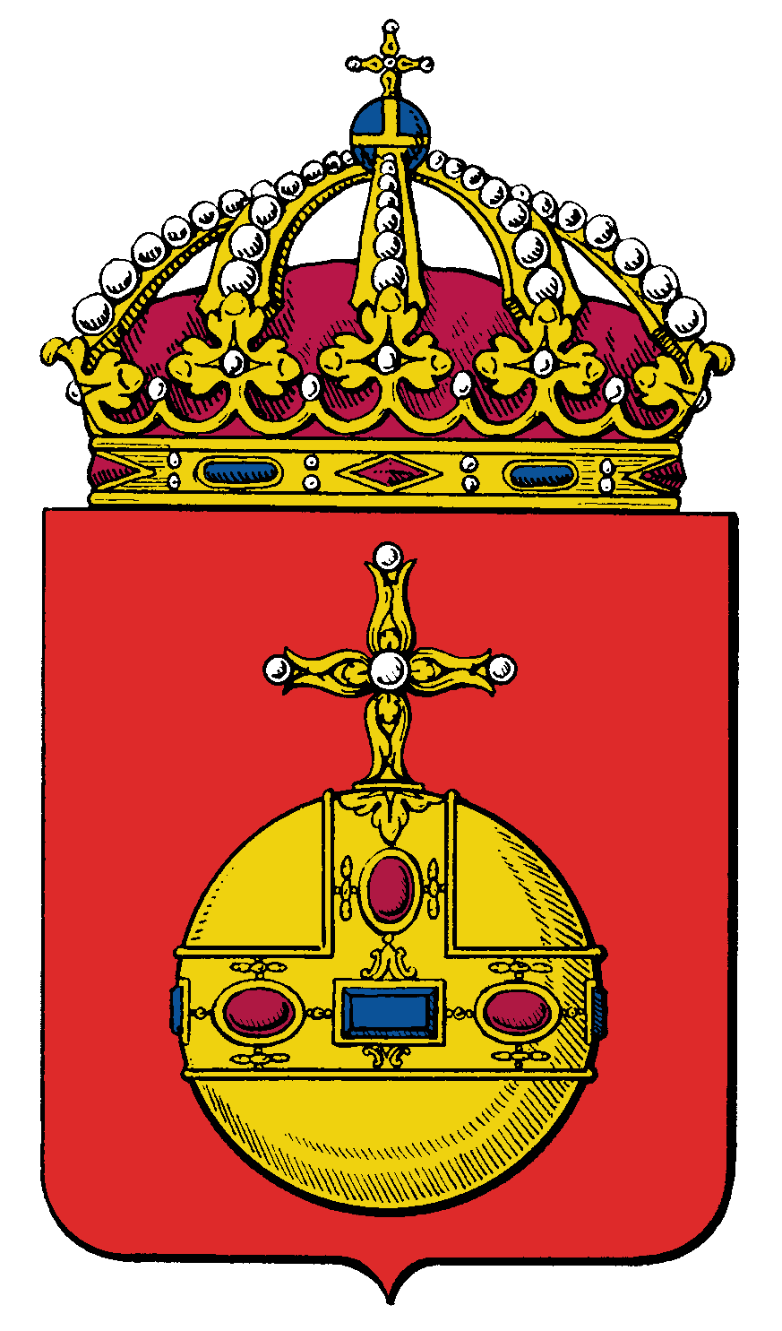 Coat of arms of the province of Uppsala.